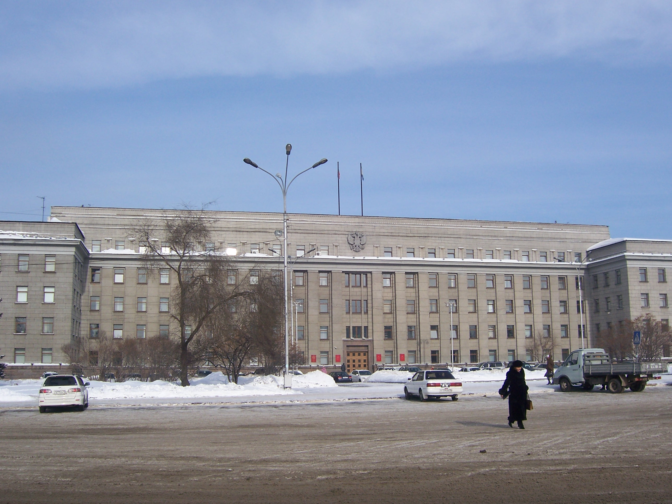 Administration of Irkutsk Region